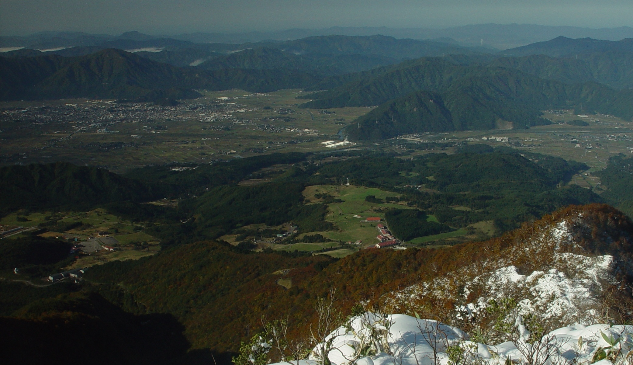 Rokuroshi Highland, Ōno Basin, and Katsuyama Basin seen from Mount Kyo in Fukui Prefecture, Japan.